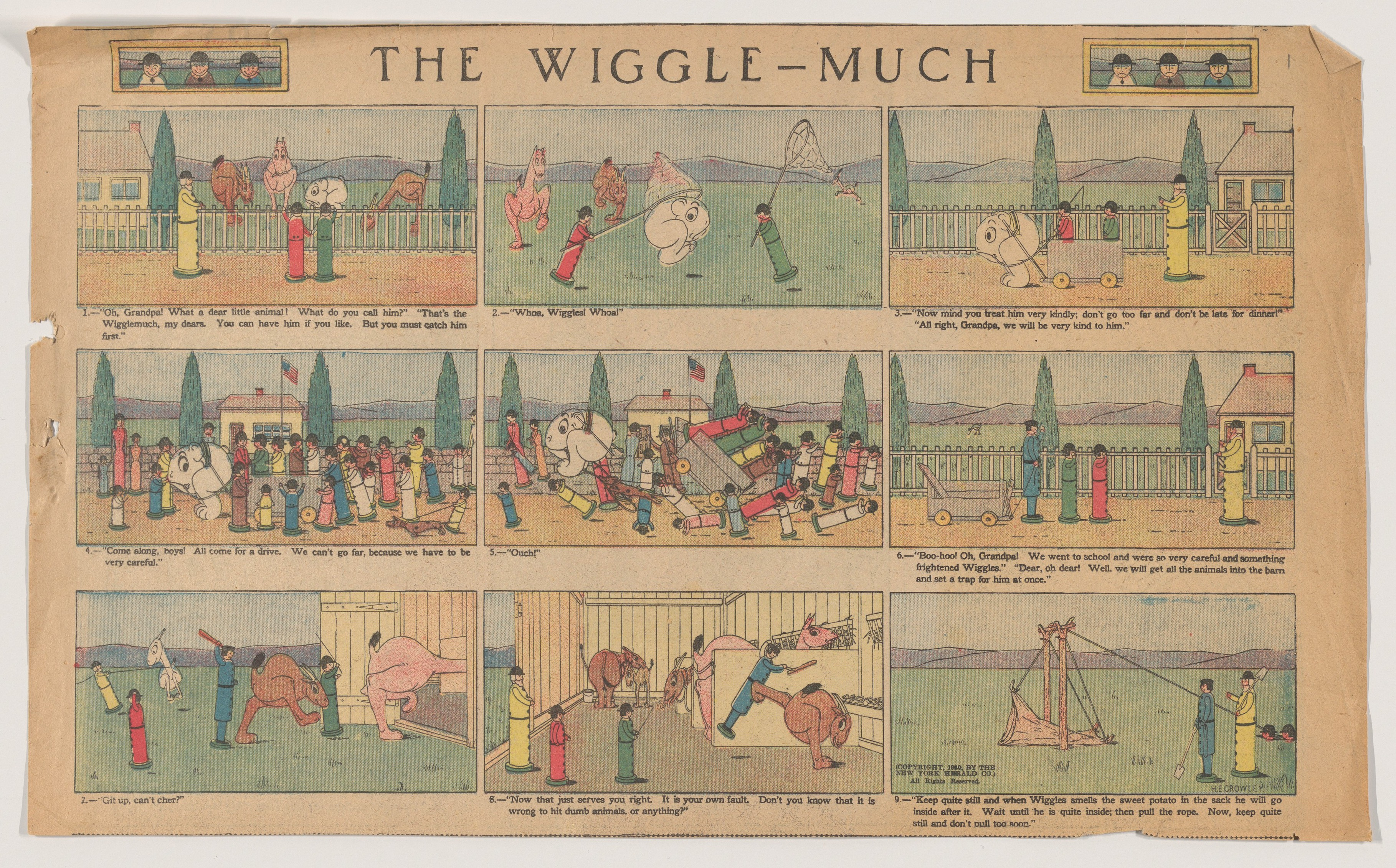 Print; Prints